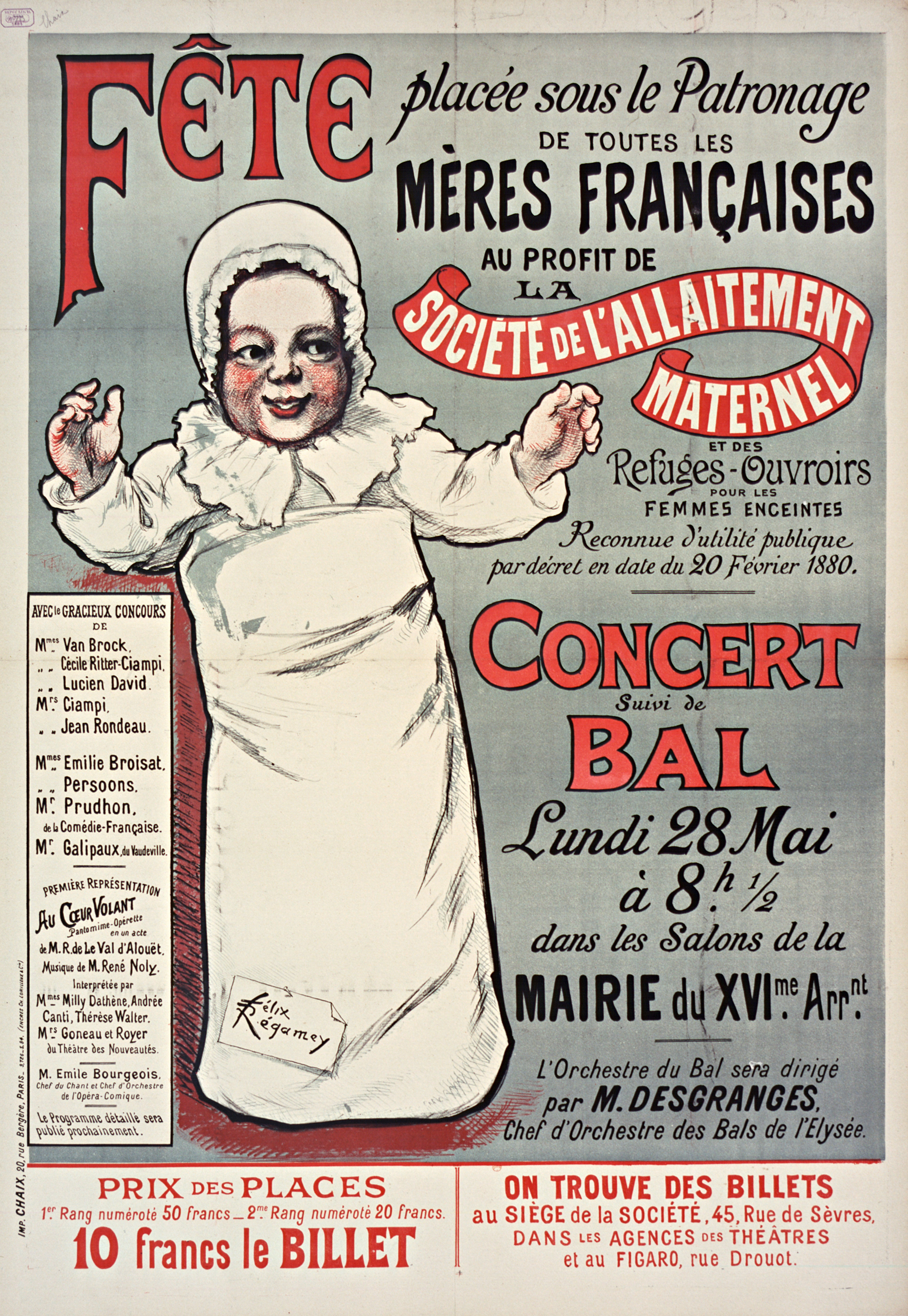 Poster for the French Mother's Day in 1906, made by Félix Régamey.